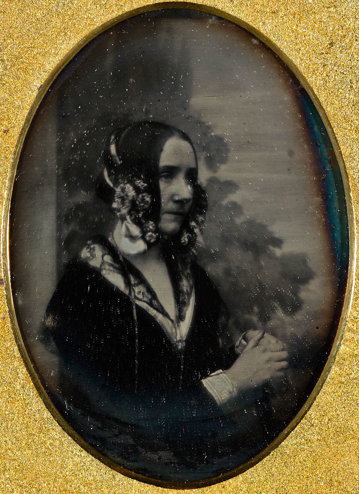 Ada Lovelace aka Augusta Ada Byron-1843 or 1850 a rare daguerreotype by Antoine Claudet. Picture taken in his studio probably near Regents Park in London